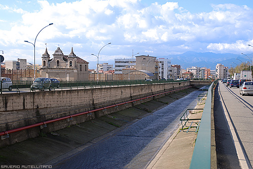 Reggio Calabria: Calopinace river and Saint Peter's Church